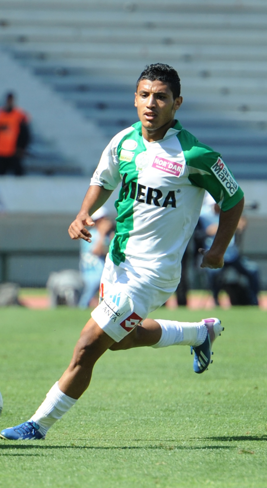 Depicted person: Abdelilah Hafidi – Moroccan footballer